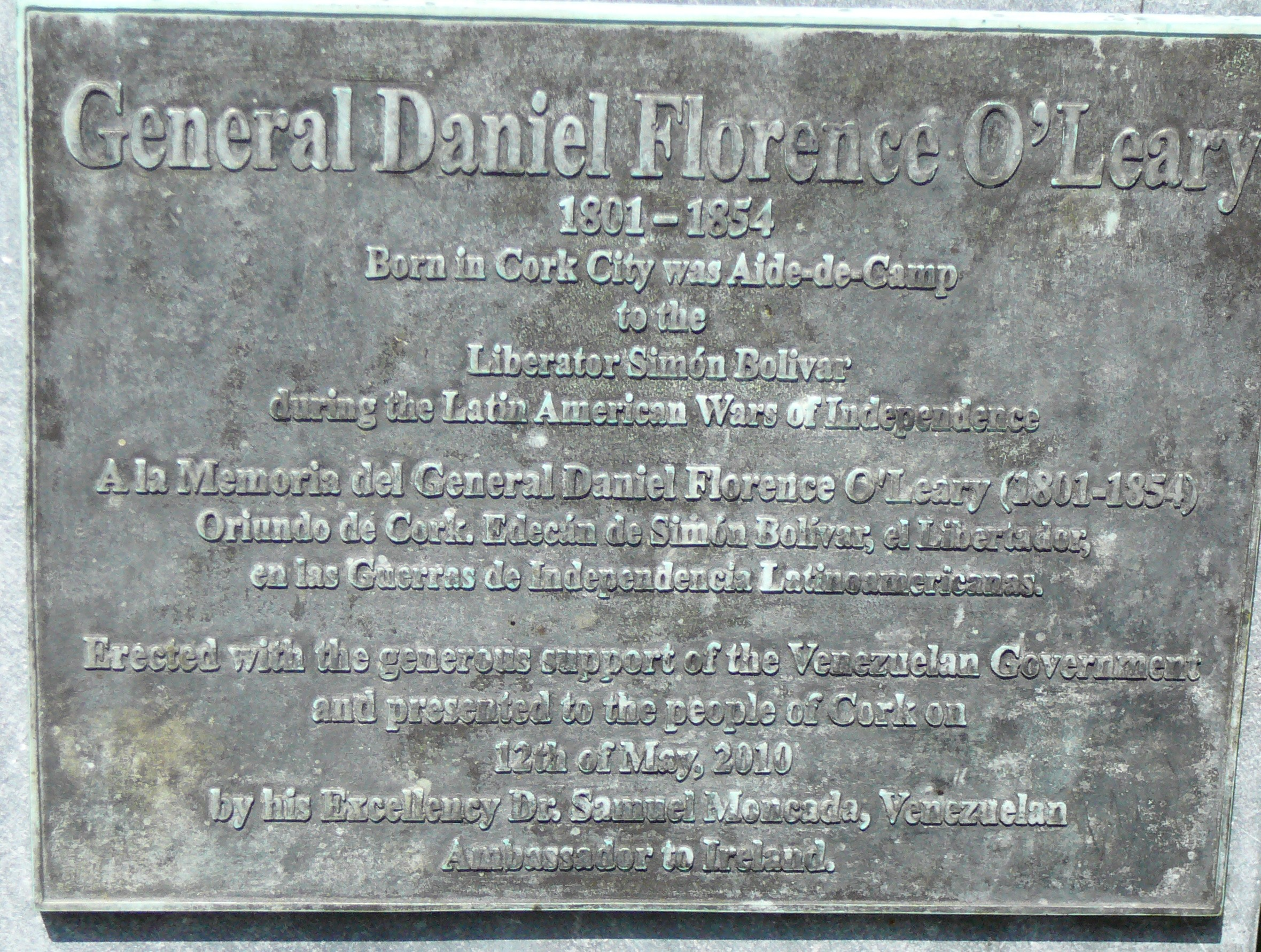 Plaque below the bust of Danial Florence O'Leary (1801–1854), born in Cork, Ireland, was a military general and aide-de-camp under Simón Bolívar, who helped to win South American Independence. The bust and plaque were presented by the Venezuelan Government in May 2010 to the people of Cork and unveiled by the Venezuelan Ambassador to Ireland, stands beside the Cork Public Museum in the Fitzgerald Park, Cork city, Ireland